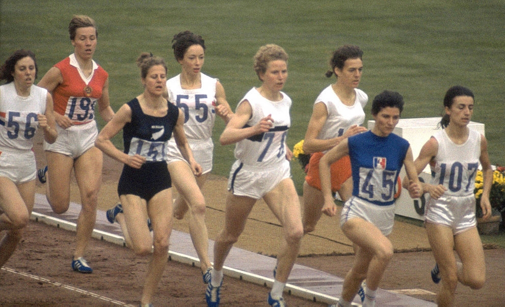 Ann Packer #55 of Great Britain, Maryvonne Dupureur #45 of France and Ann Chamberlain #151 of New Zealand compete in the Women's 800m Final during the Tokyo Olympic at the National Stadium on October 20, 1964 in Tokyo, Japan. Left-right: Anne Rosemary Smith, Laine Kallas, Marise Chamberlain, Ann Packer, Antje Gleichfeld, Gerda Kraan, Maryvonne Dupureur, Zsuzsa Szabó